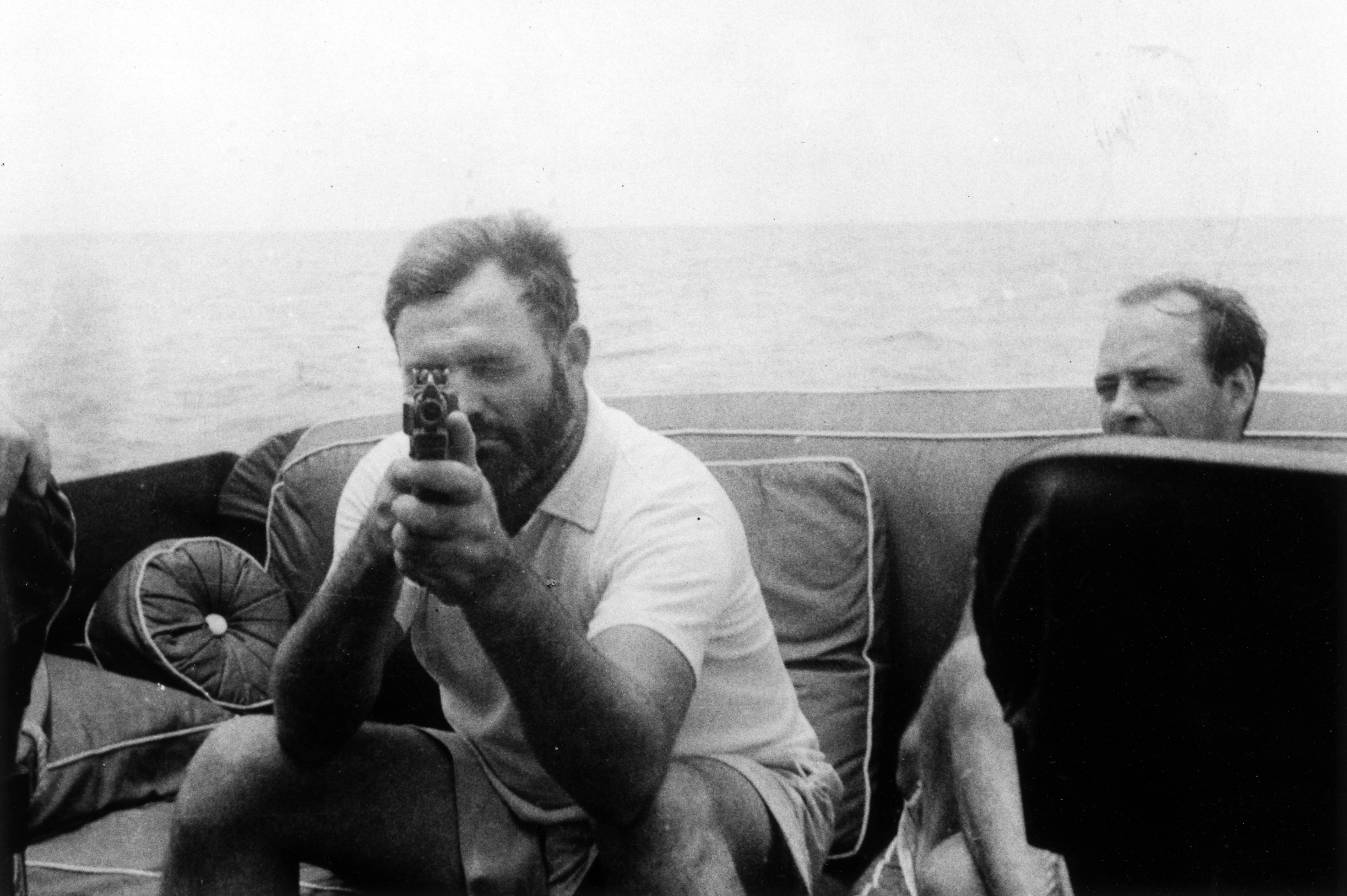 Photograph of Ernest Hemingway, holding a tommy gun, aboard his yacht, the Pilar.